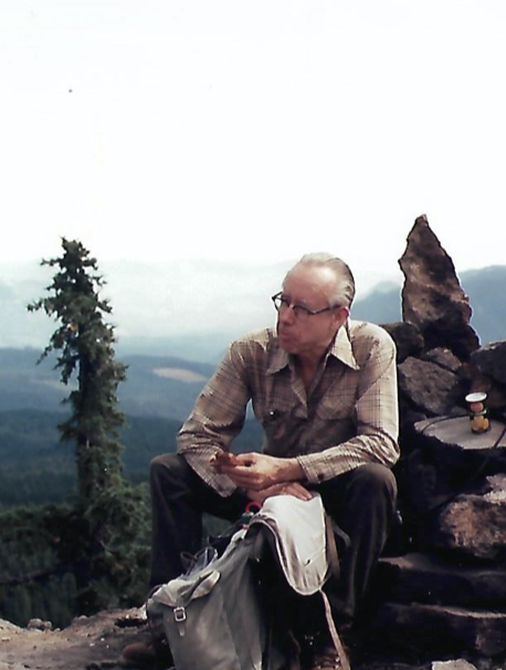 Richard Macy Noyes on the summit of Substitute Point, Oregon